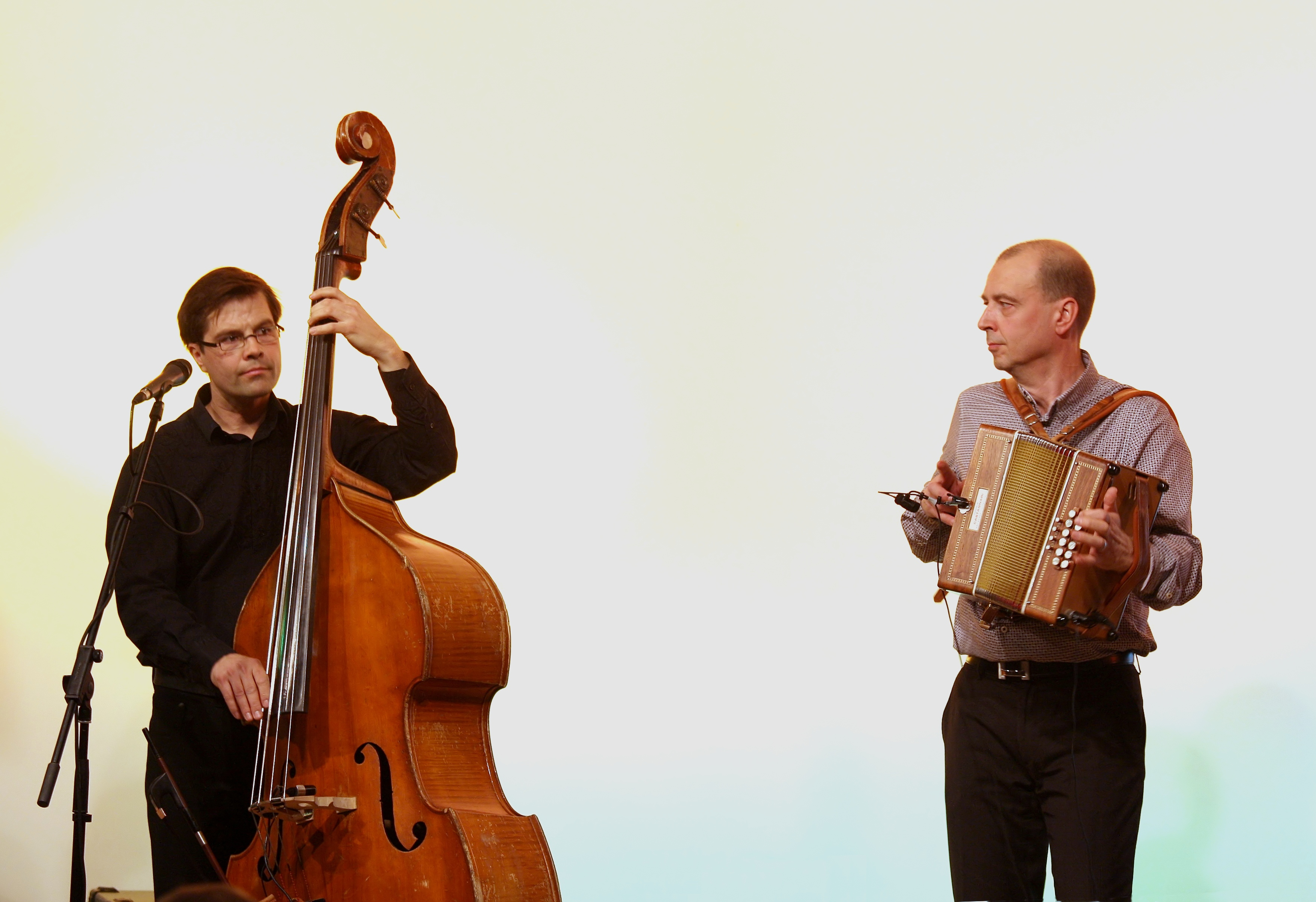 Pekka Lehti (double bass) and Markku Lepistö (akkordion) during a concert in the Domforum, Cologne, Germany